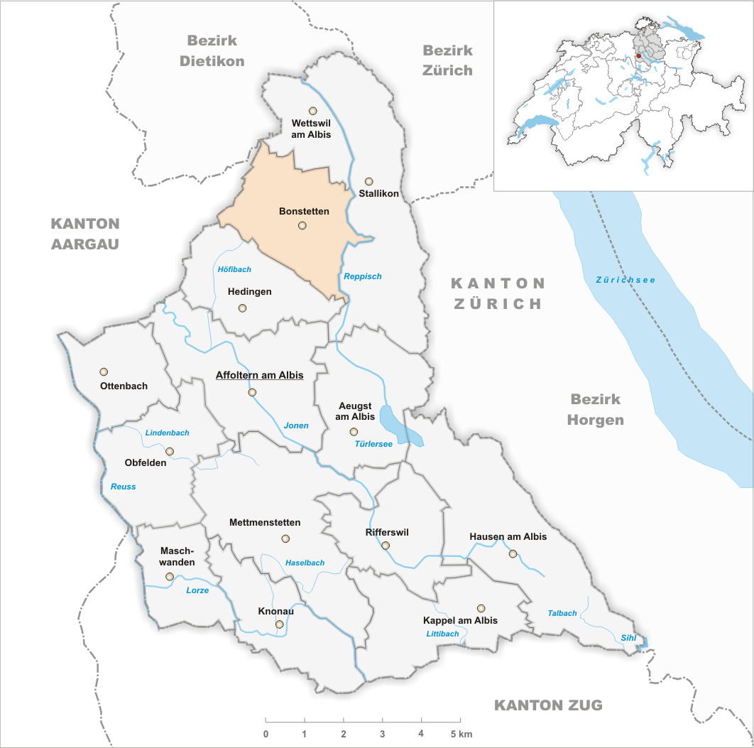 Municipality Bonstetten